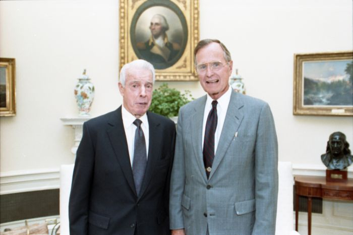 President George H. W. Bush meets with Joe DiMaggio in the Oval Office.